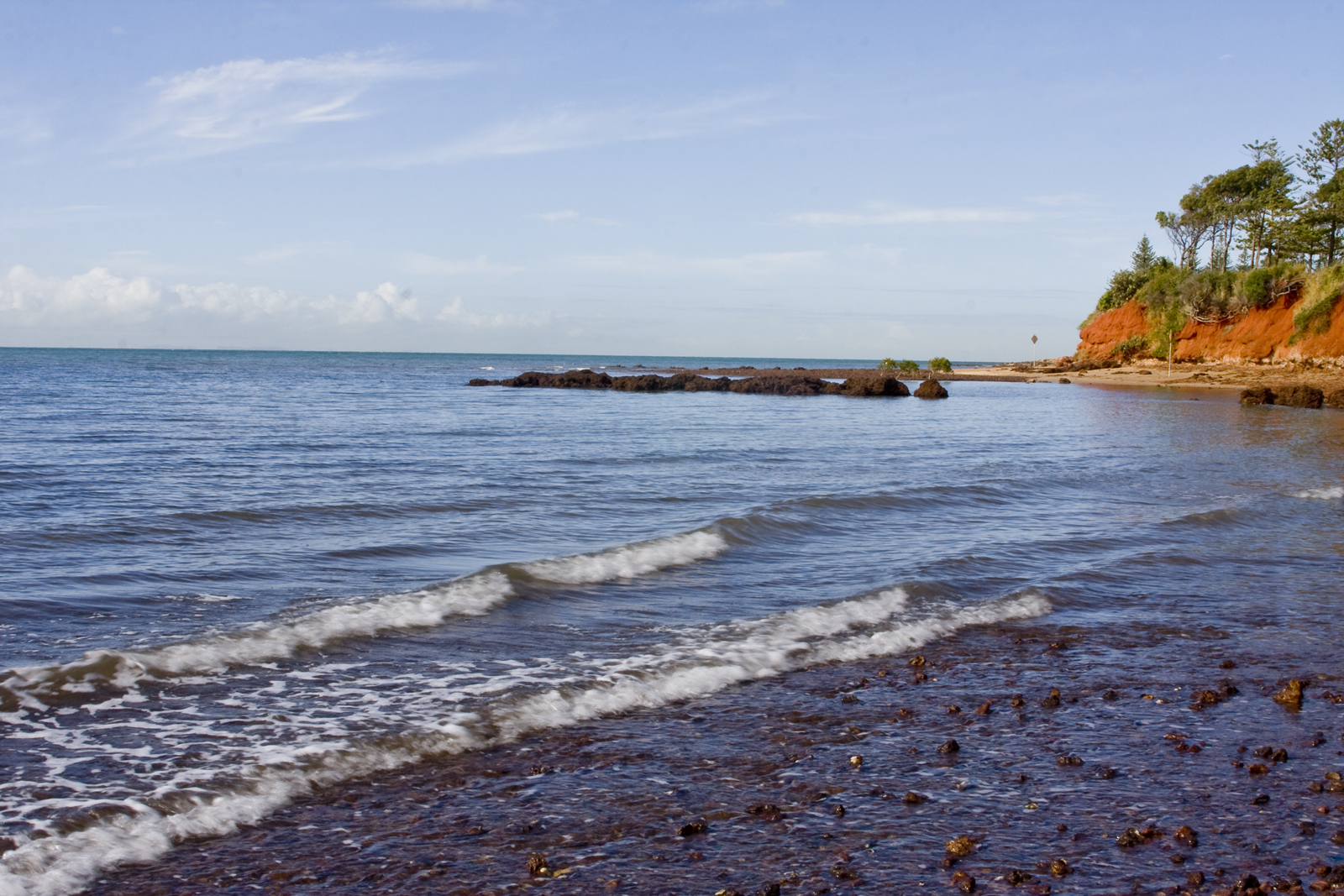 Red Cliffs of Scarborough Erosion MAY 2008